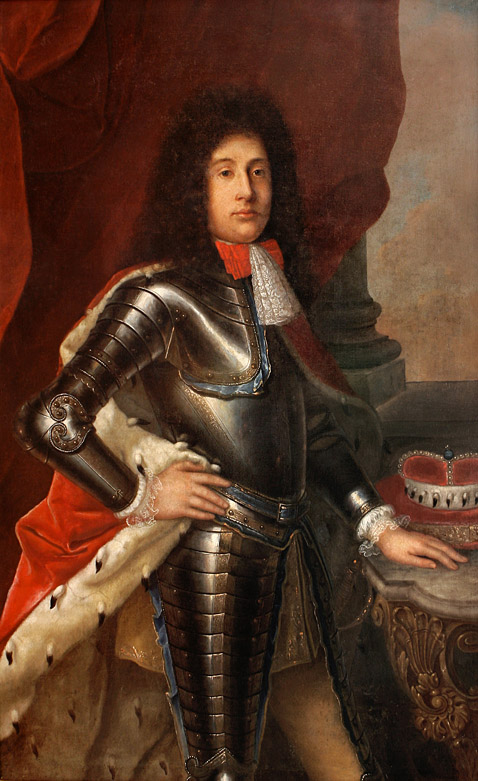 Emanuel Leberecht von Anhalt-Köthen (1671-1704)